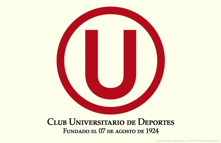 Escudo de la U